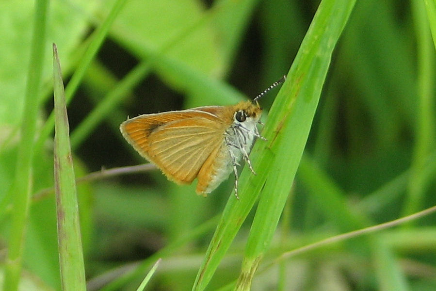 Least Skipper (Ancyloxypha numitor), Ottawa, Ontario